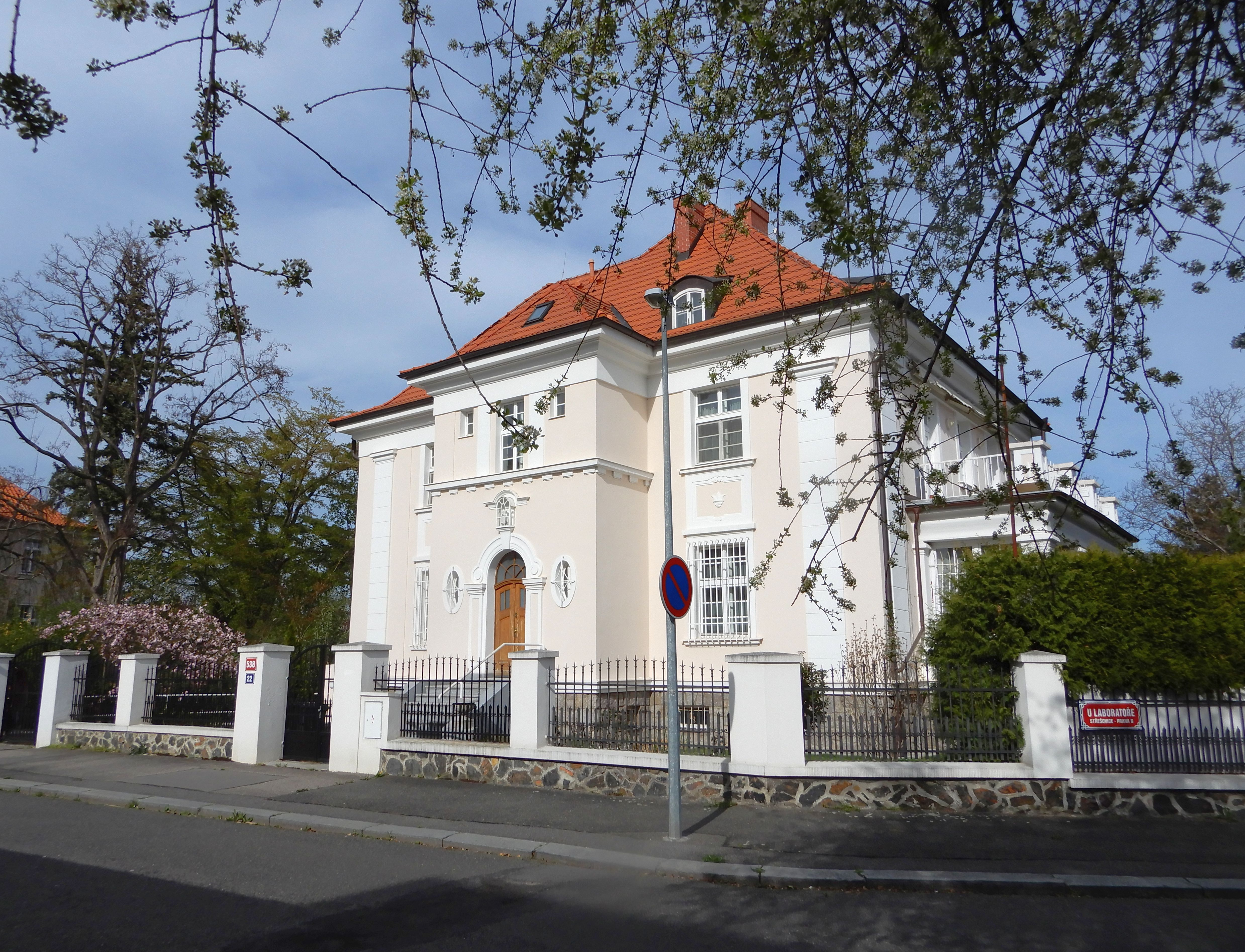 Praha 6-Střešovice dům čp.538̠ U laboratoře 22̞ the last house of Egon Erwin Kisch